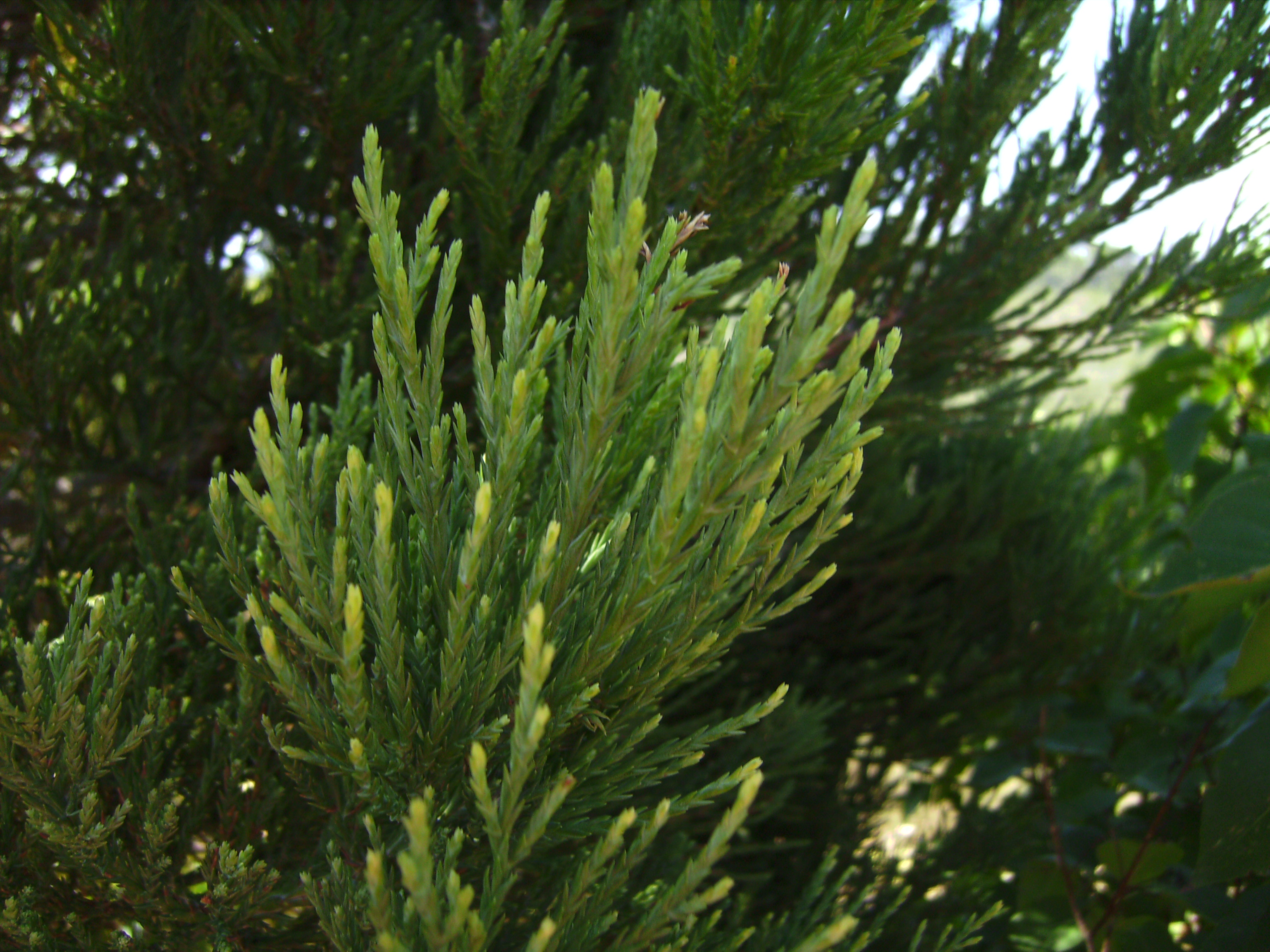 Sequoiadendron leaves, Castelltallat, Catalonia